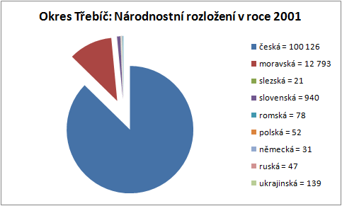 Nationality in Třebíč county in 2001.